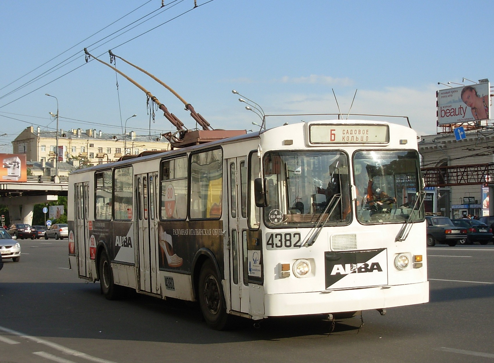 "Ziu" trolleybus on Garden Ring in Moscow (line B)